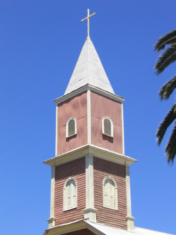 Barraza, Chile, tower of San Antonio del Mar y la Purísima Concepción church. Source: photographed by myself 2004:02:02 15:54:22 Photographer: Zuirdj Licence: Public Domain Description